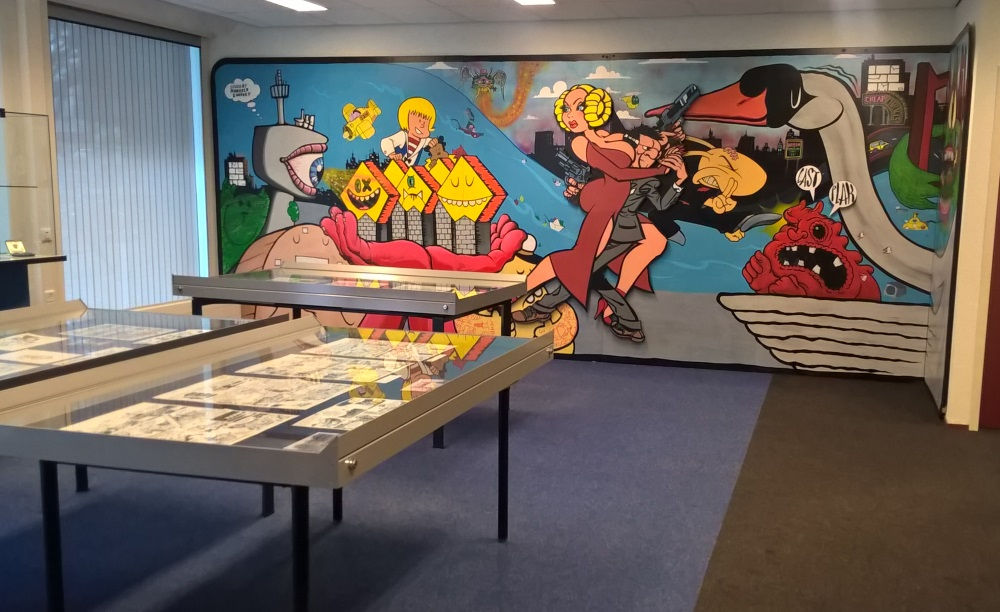 Strips! Museum, Rotterdam, The Netherlands. Exhibition about Martin Lodewijk.